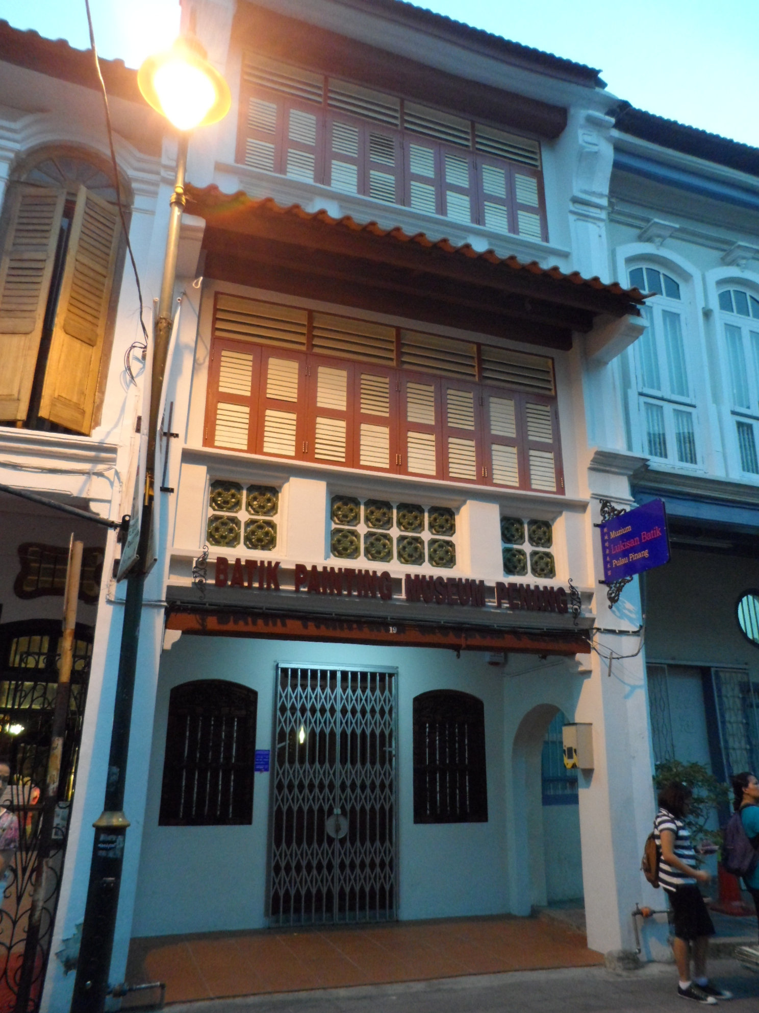 Batik Painting Museum Penang, George Town, Penang, MalaysiaBahasa Melayu: Muzium Lukisan Batik Pulau Pinang, George Town, Pulau Pinang, Malaysia